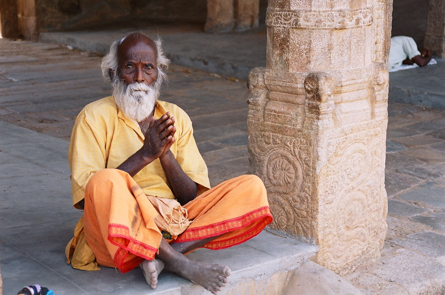 A beggar clad in holy orange dhoti and shirt in the Trichy Srirangam temple complex35470007